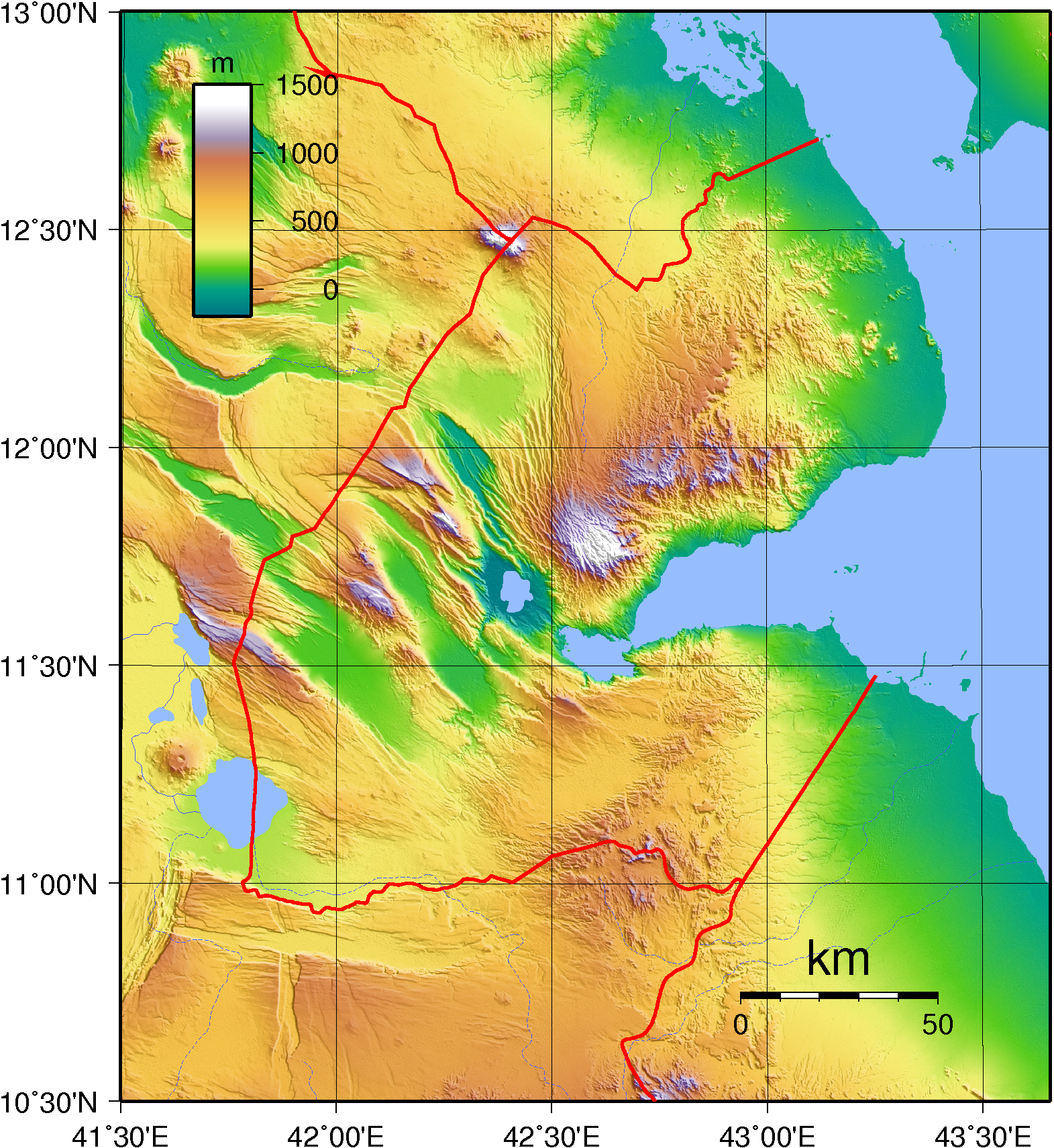 Topographic map of Djibouti. Created with GMT from SRTM data.